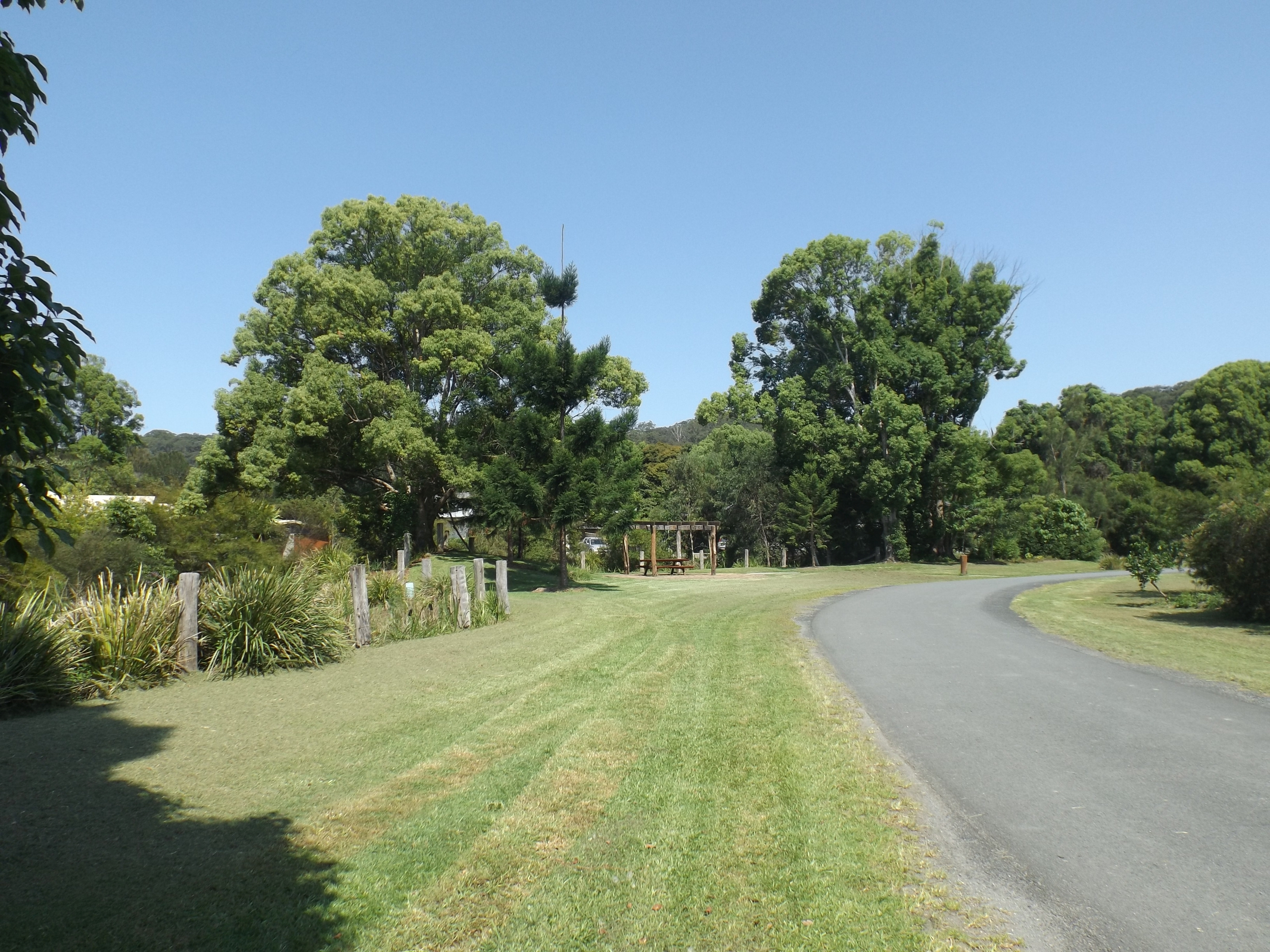 Photo of one of the roads in the Currumbin Ecovillage at Currumbin Waters, Gold Coast City, Queensland, Australia.